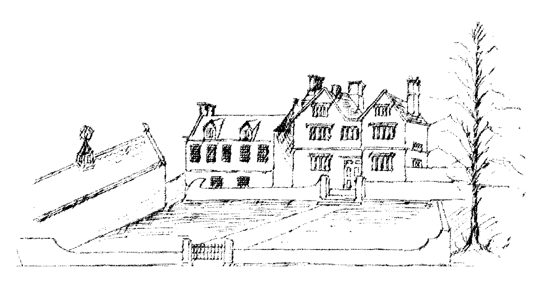 Hand drawn sketch of Busby Hall in the 1600s. A large country house in North Yorkshire.